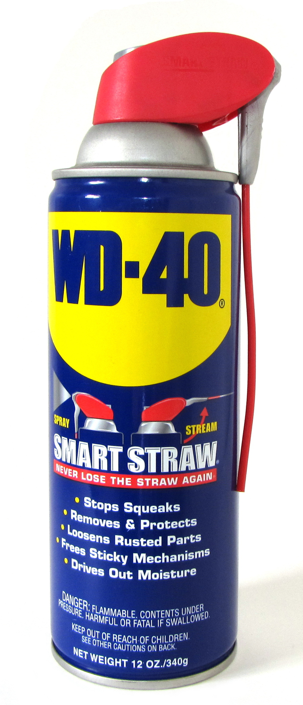 WD-40 lubricant with straw for easy-spray.